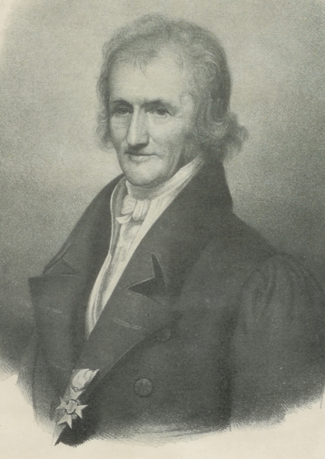 Johann Heinrich Cotta (1763-1844), German forestry scientist